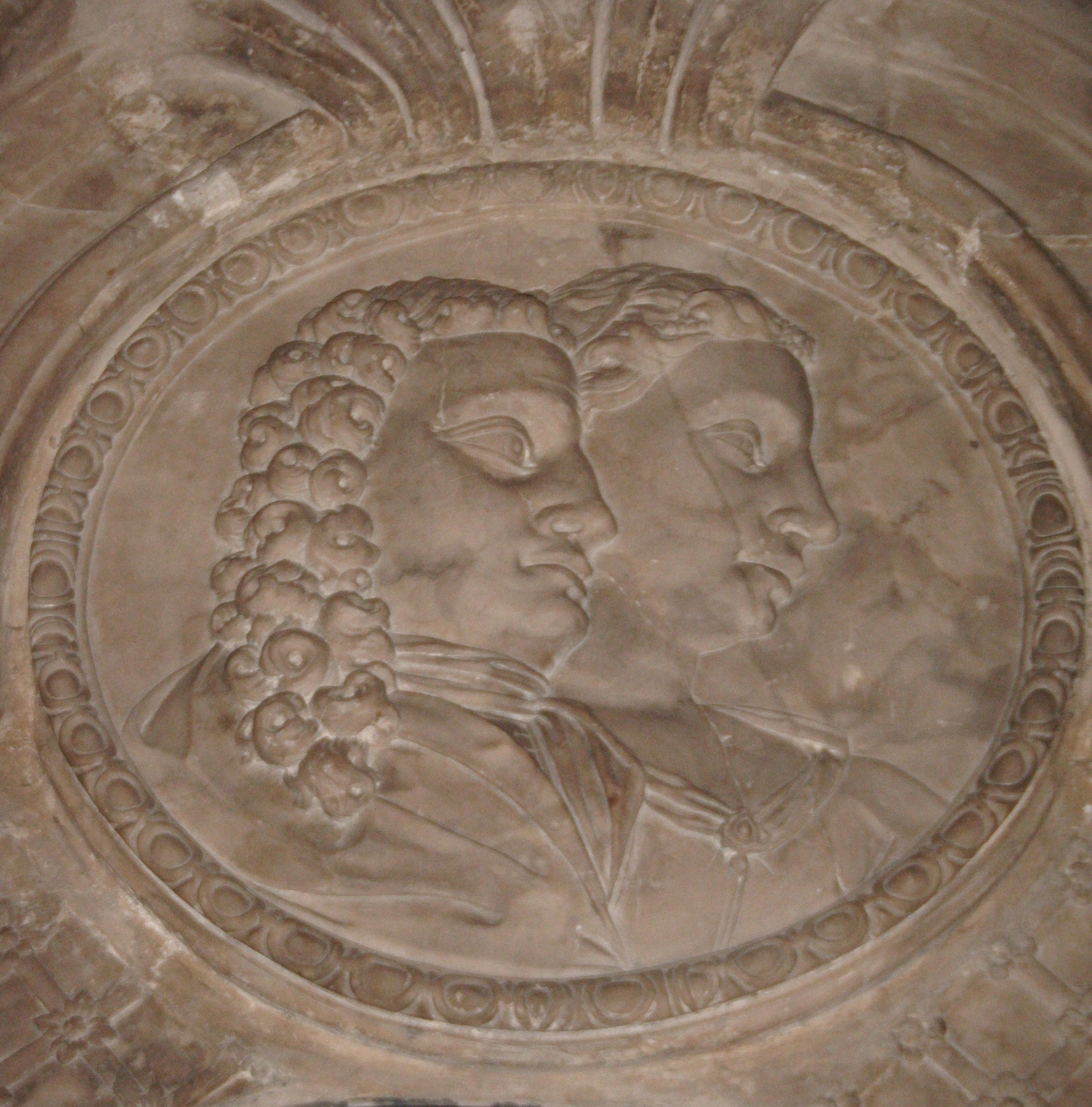 Porträtmedaillon Freiherr Franz Pleickard Ulner von Dieburg (1677-1748) und Gattin Maria Theresia Josepha geb. von Haxthausen (1692–1731), vom Epitaph der Gattin, Weinheim, Pfarrkirche St. Laurentius